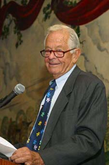 Pediatrician T. Berry Brazelton, M.D.